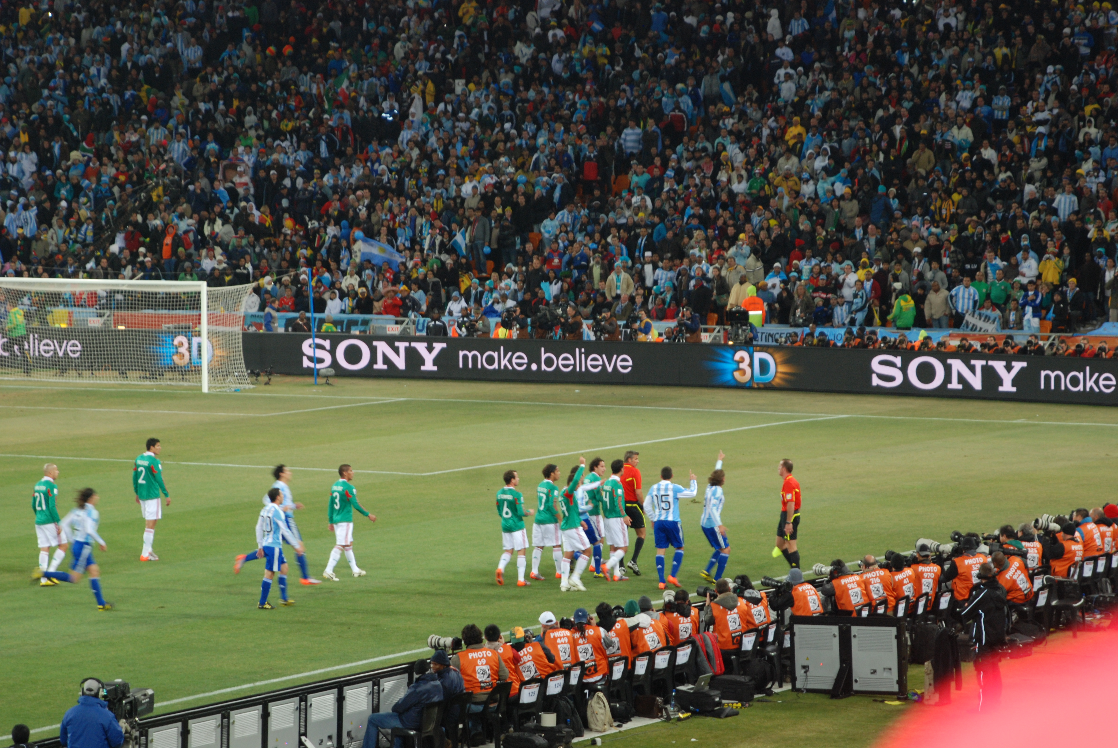 Mexican footballers contest Gonzalo Higuaín's goal during the Round of 16 game between Argentina and Mexico at FIFA World Cup 2010, 27 June 2010, Soccer City, Johannesburg